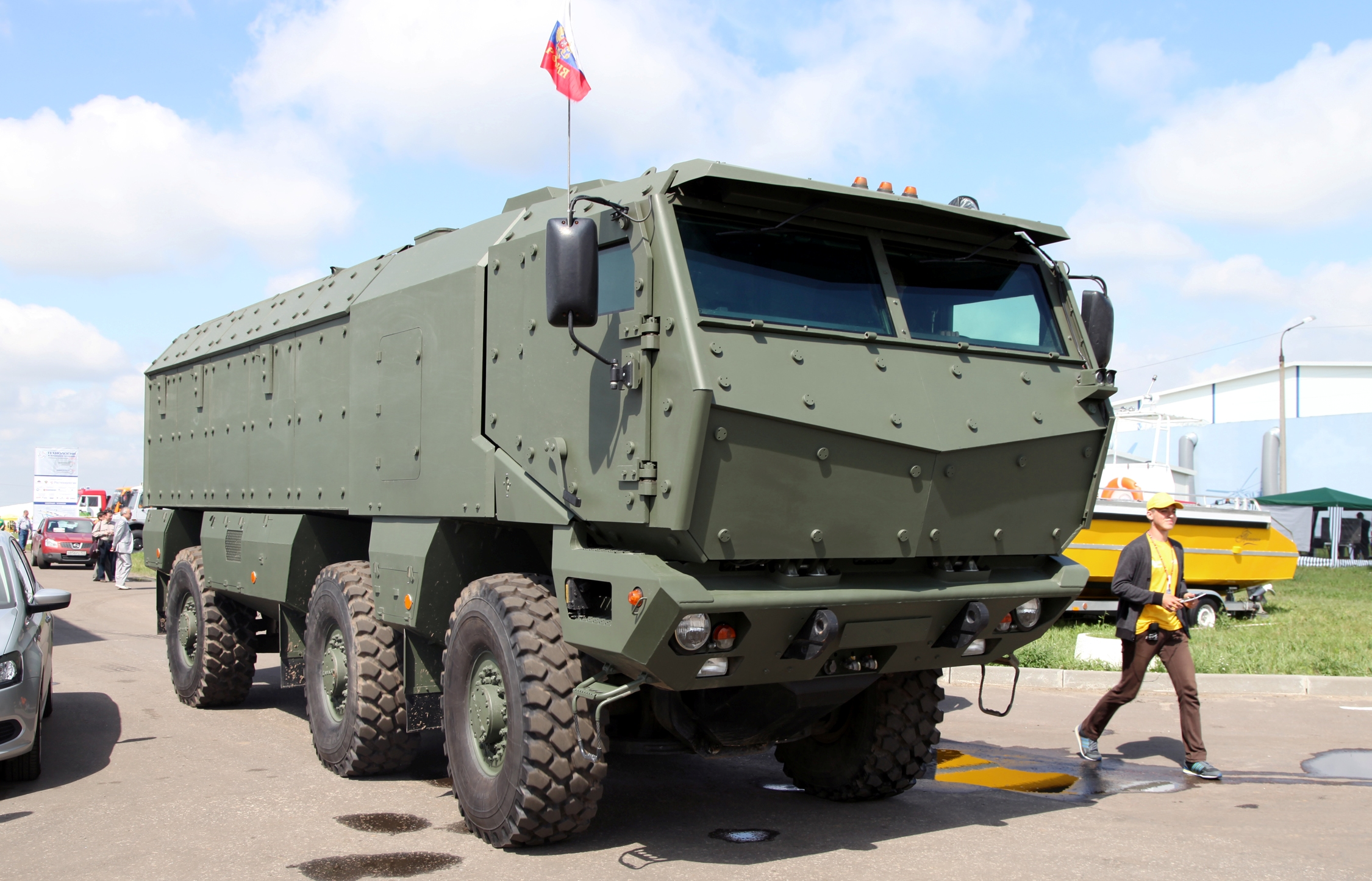 KamAZ-63968 Typhoon at the exhibition Engineering technologies 2012.